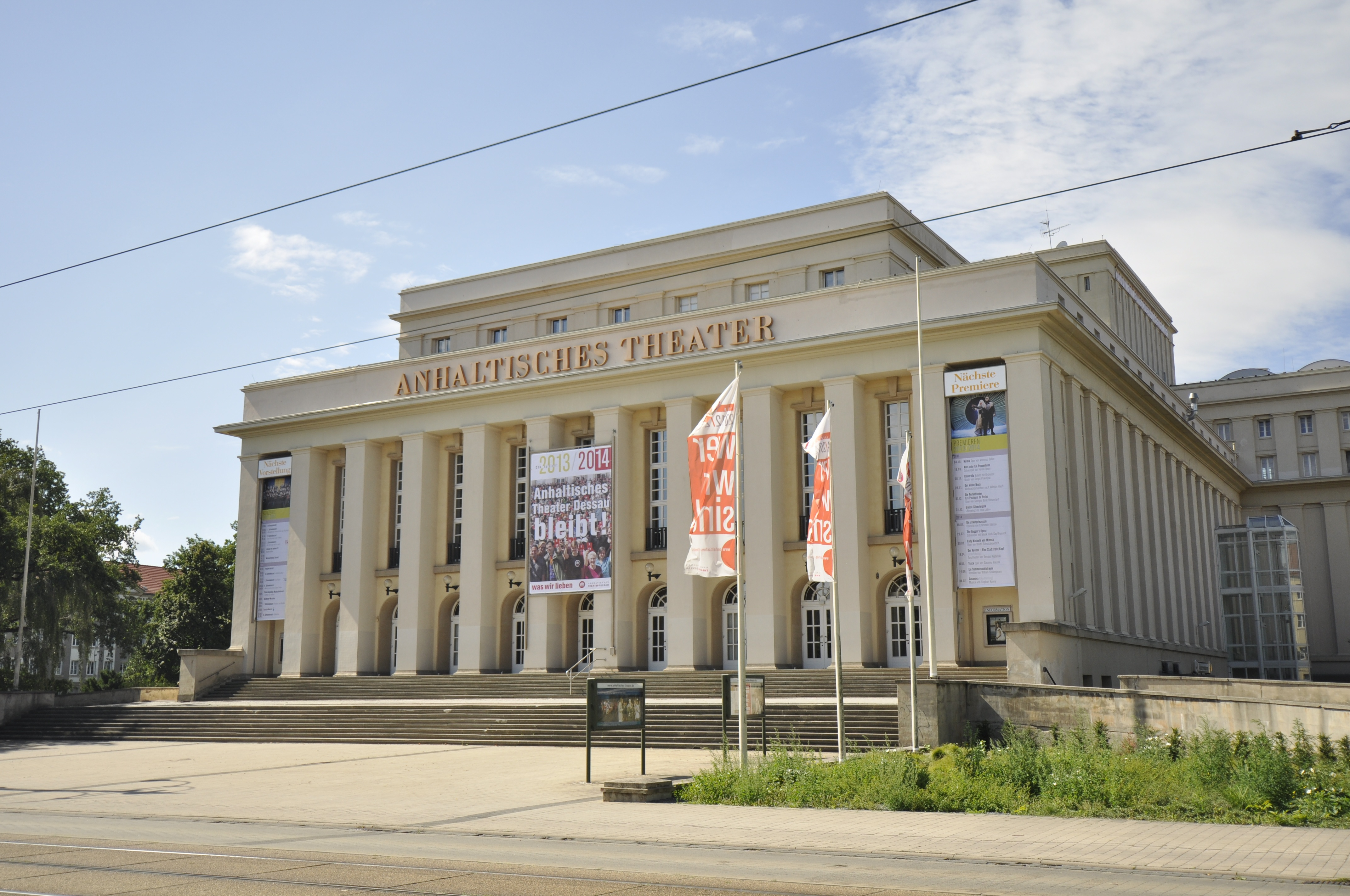 Anhaltisches Theater in Dessau, Germany during season 2013/2014. Poster in front ("Anhaltisches Theater bleibt") protests against a planned cutback of government subsidies.